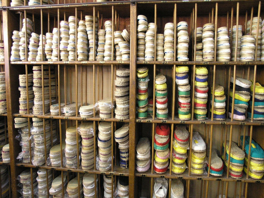 Photograph of a shelf of Catalonian Espadrilles on display in a small shop in Barcelona